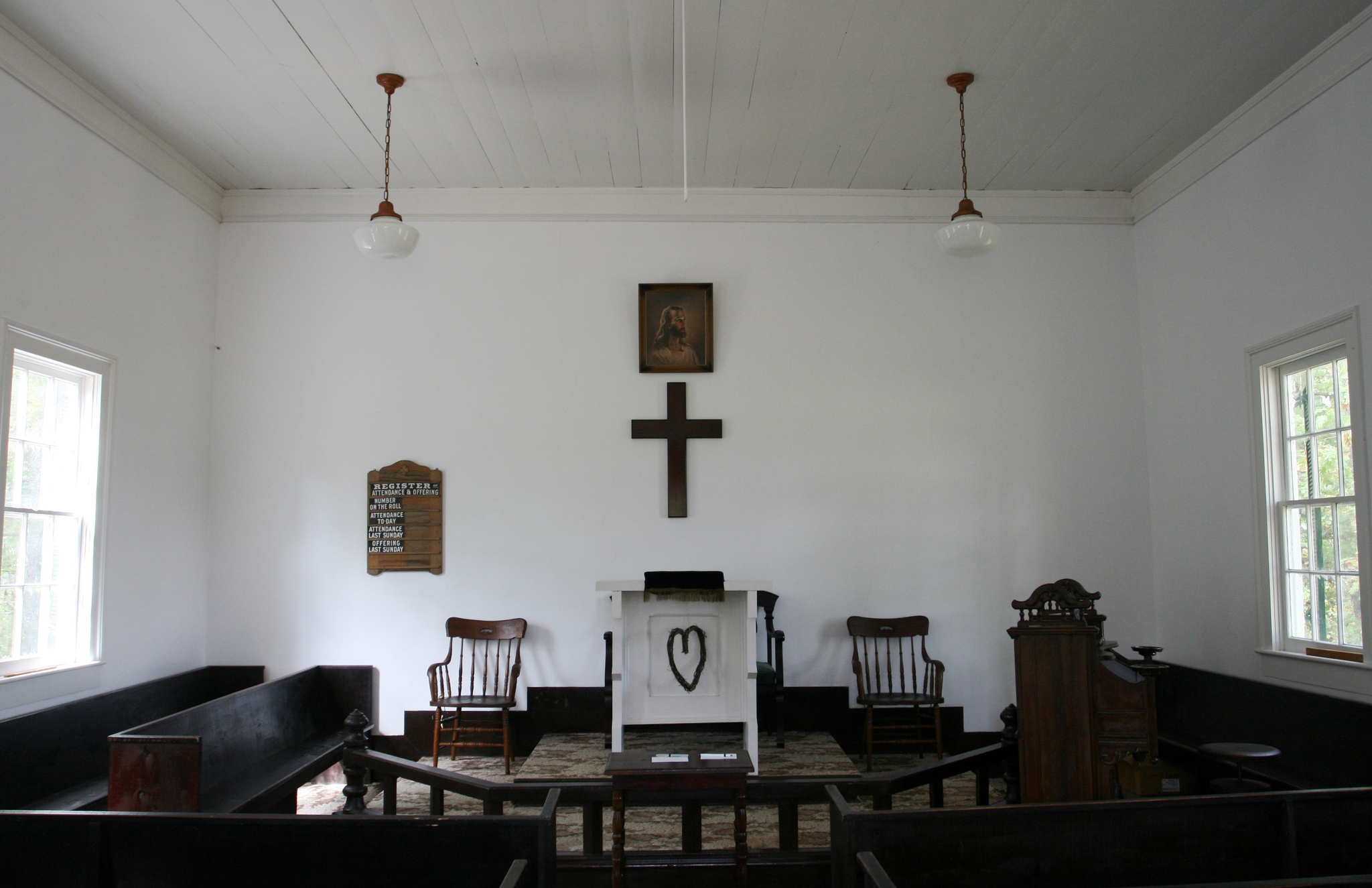 The Interior of the Mount Moriah Lutheran Church in Baughman Settlement, Hardy County, West Virginia